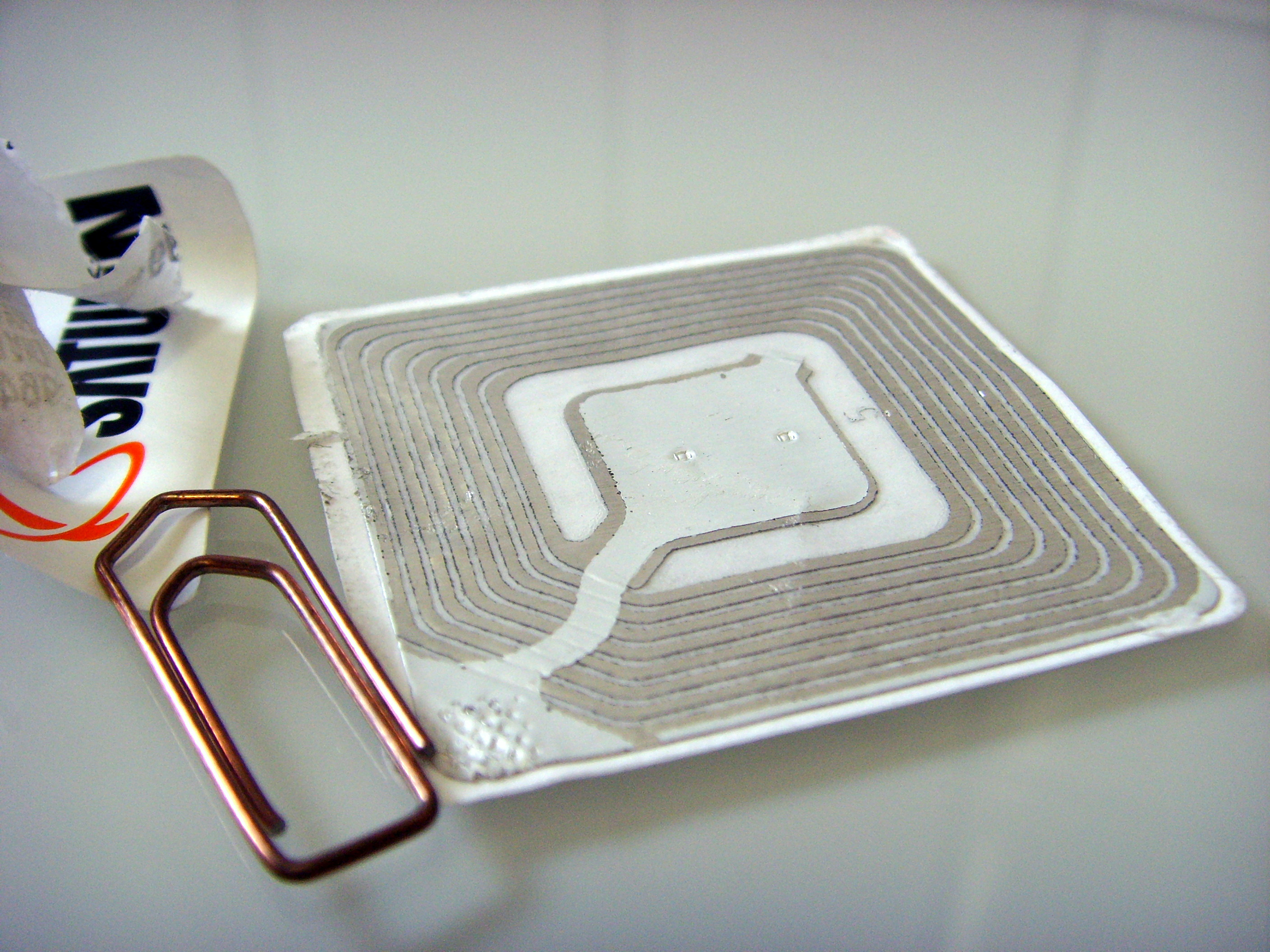 RFID Chip mit Resten eines Barcode Aufkleber, Sicherungsetikett auf einer DVD eines Elektrogeschäftes : RFID in a form of a sticker with bar code on the opposite side, security chip for a DVD Source: own work Date: March 11, 2008 Author: Maschinenjunge Licence: GFDL, cc-by 3.0